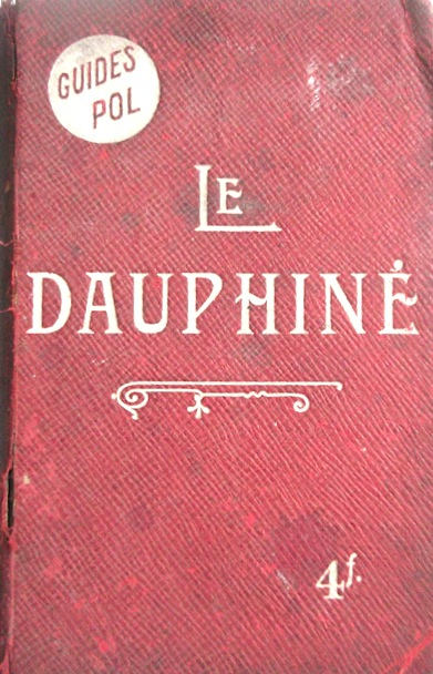 Cover of 1899 travel guide book to the Dauphiné region, France.